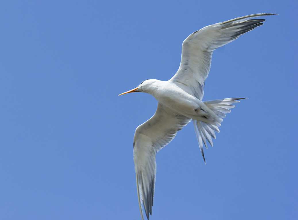 Pelagic bird